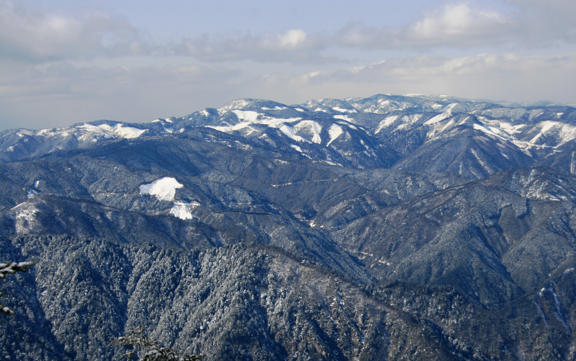 Mount Okusangai seen from Mount Nagiso